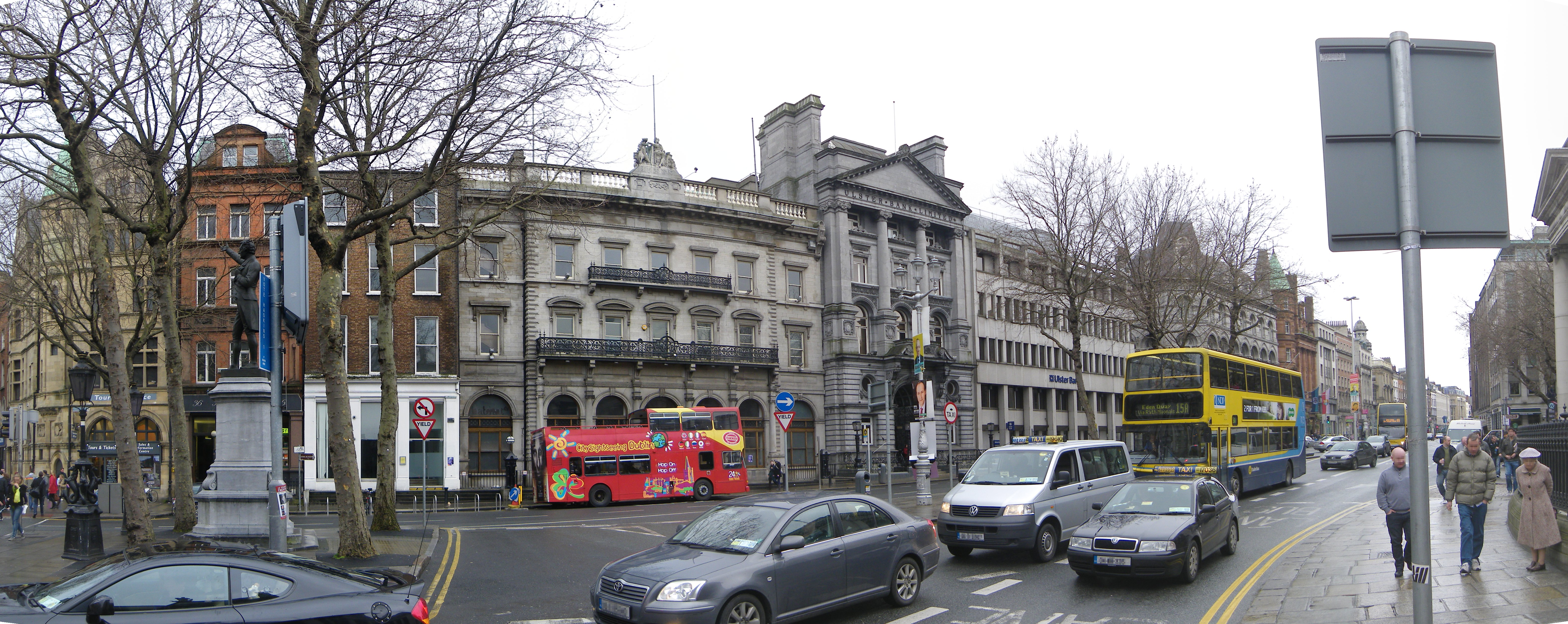 View from in front of the Bank of Ireland building (behind camera) of the south side of College Green, opposite, in Dublin.